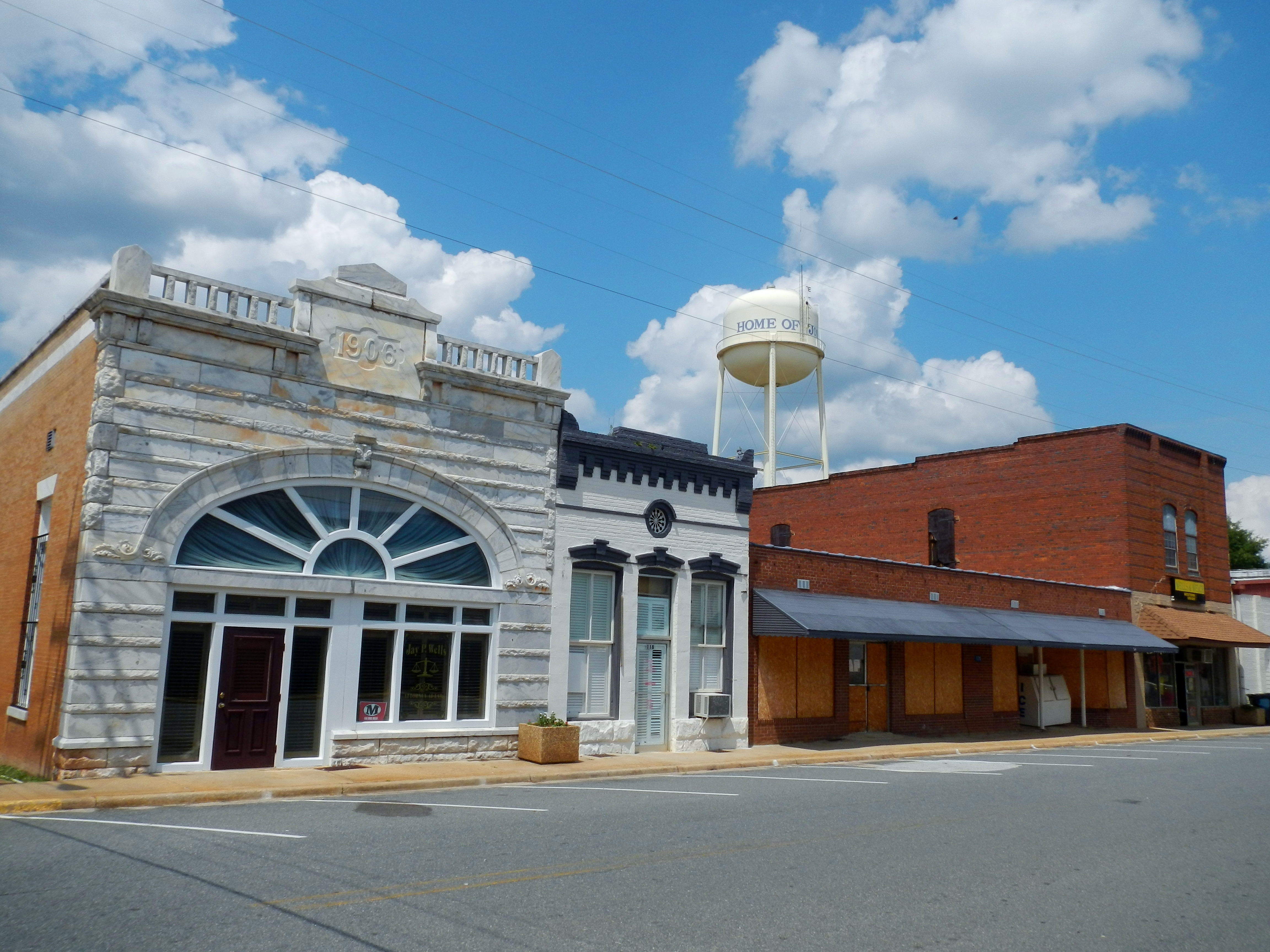 This is a photograph of Buena Vista, GA.